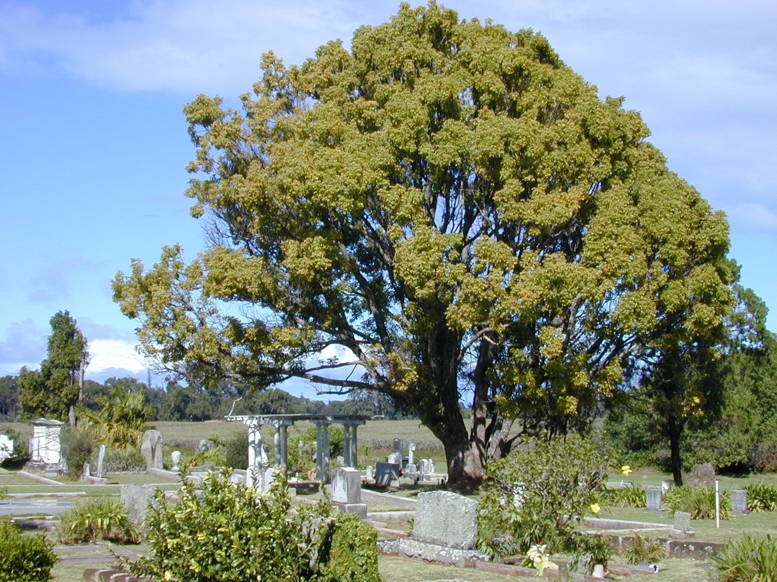 Cinnamomum camphora (habit). Location: Maui, Veterans Cemetary Makawao